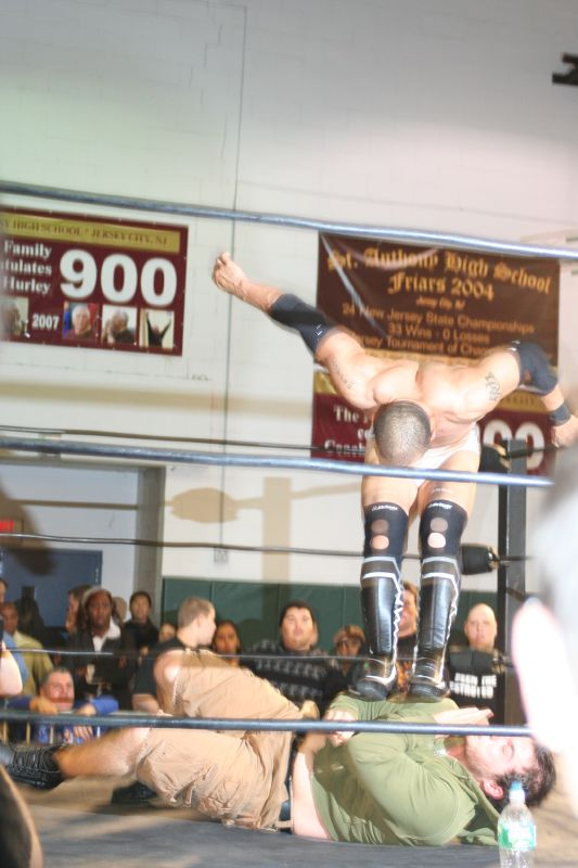 Professional wrestler Low Ki (real name Brandon Silvestry) performing his Ghetto Stomp/Warrior's Way finishing move (a diving double foot stomp) at a Jersey All Pro Wrestling show on November 15, 2008.